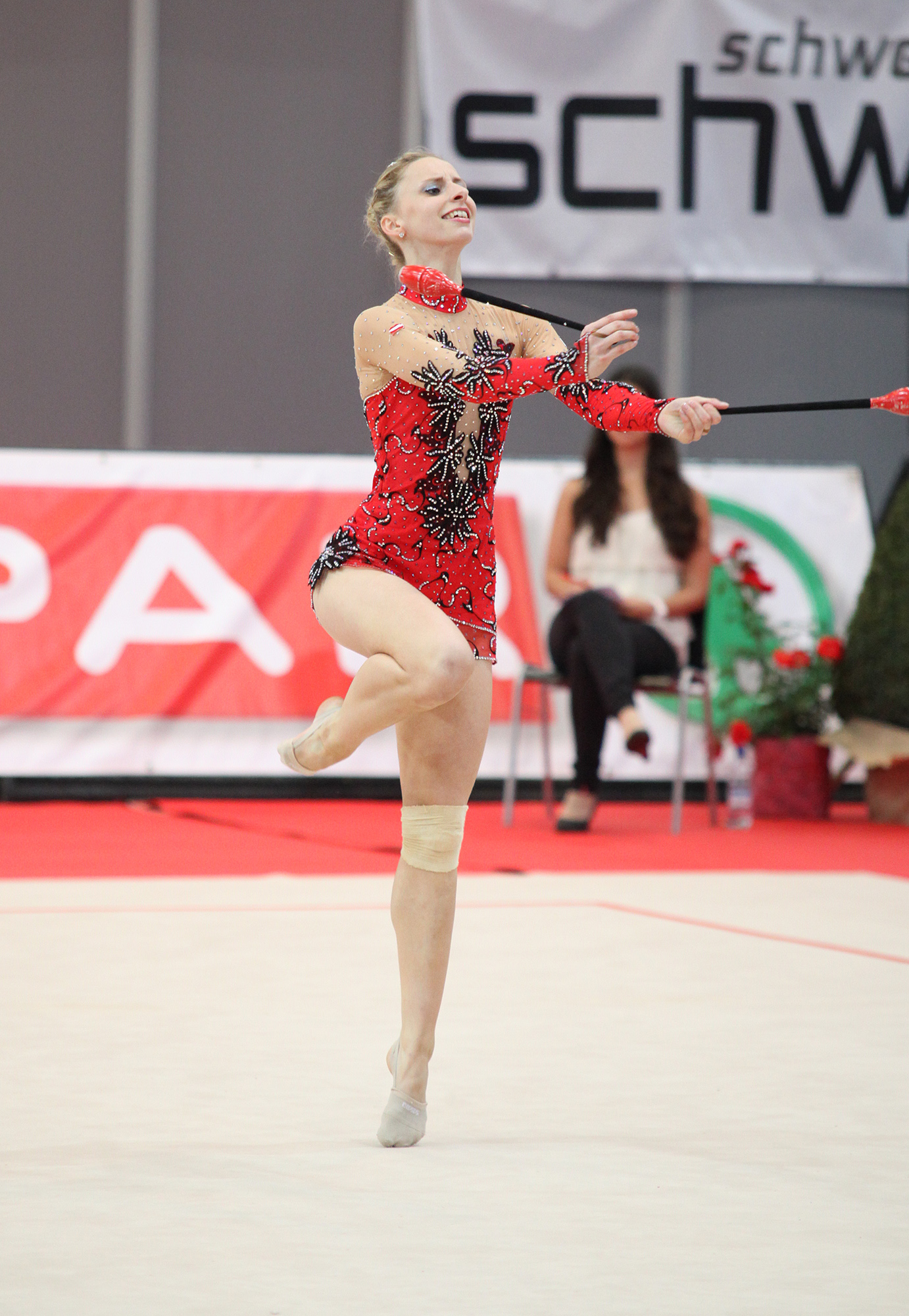 Grand Prix Rhythmic Gymnastics in Austria (Hard) 2012. Caroline Weber